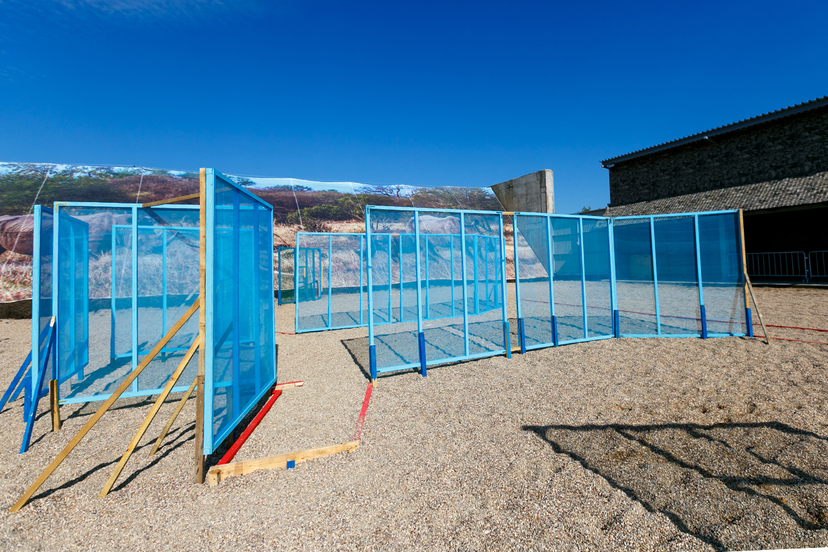 A stage from the 2017 IPSC Rifle World Shoot in Russia. Walls and Fault Lines on the ground are used to define the boundary of the shooting area used during the course of fire.